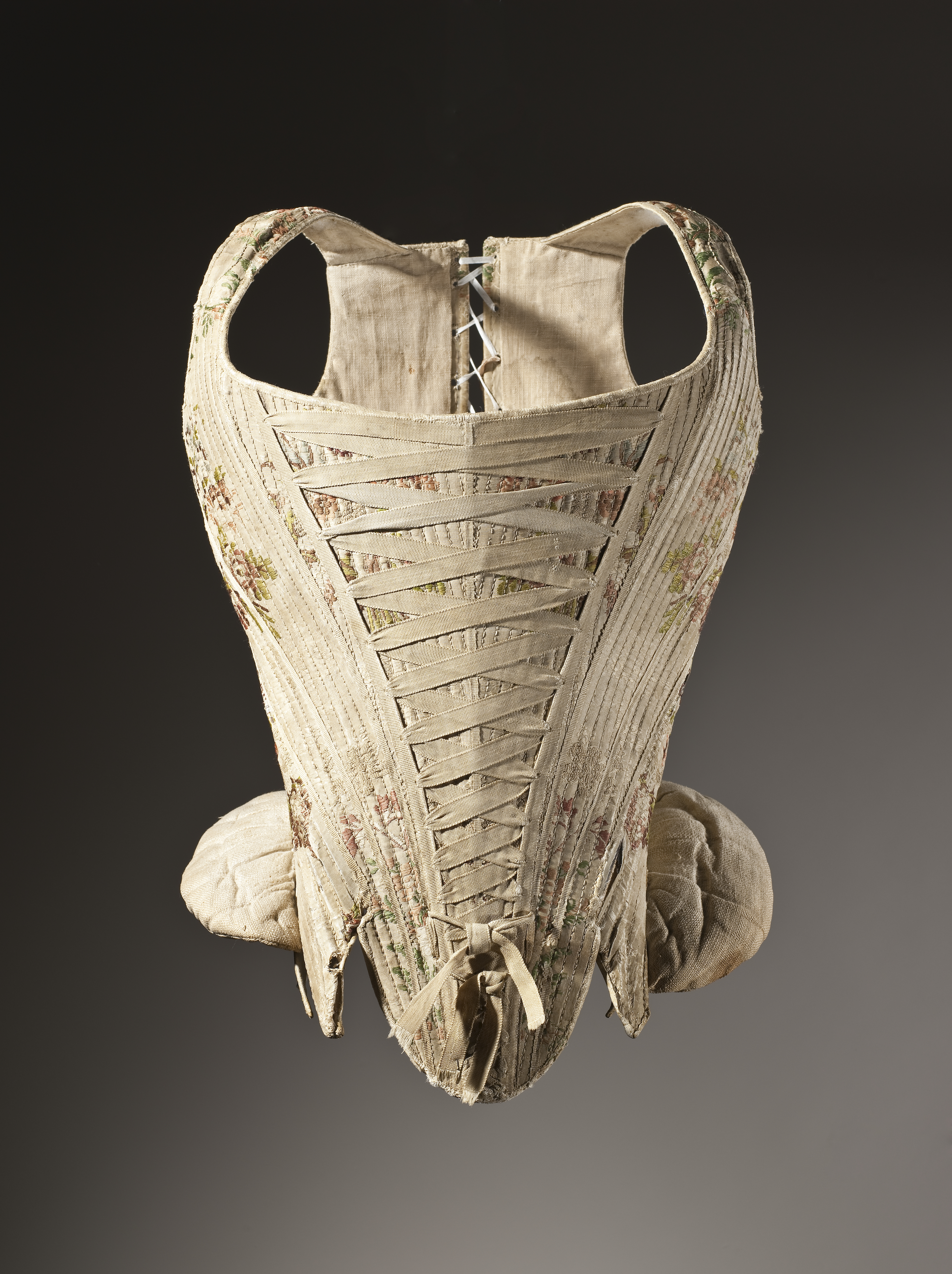 Woman's corset, France, c. 1730-1740. Silk plain weave with supplementary weft-float patterning